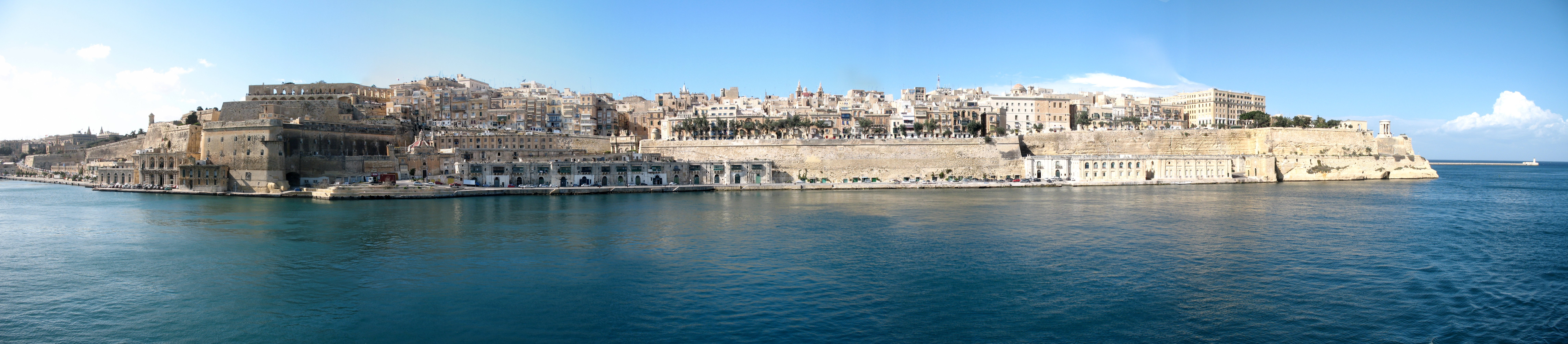 Malta, Valletta, Panorama